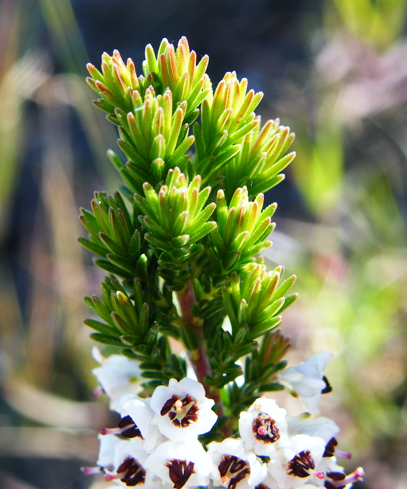 Erica calycina, Table Mountain, Cape Town